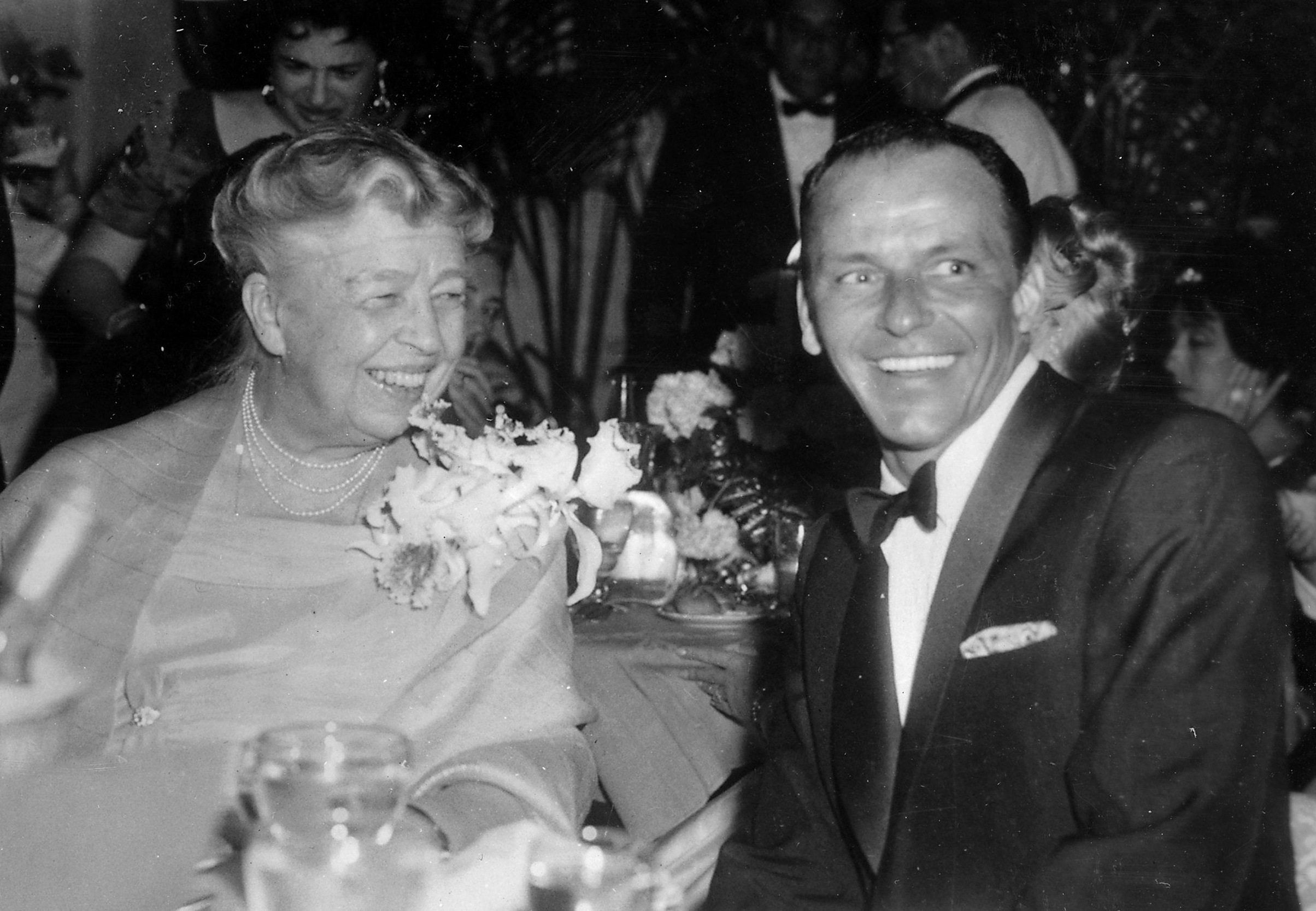 Eleanor Roosevelt and Frank Sinatra at Girl's Town Ball in Florida.